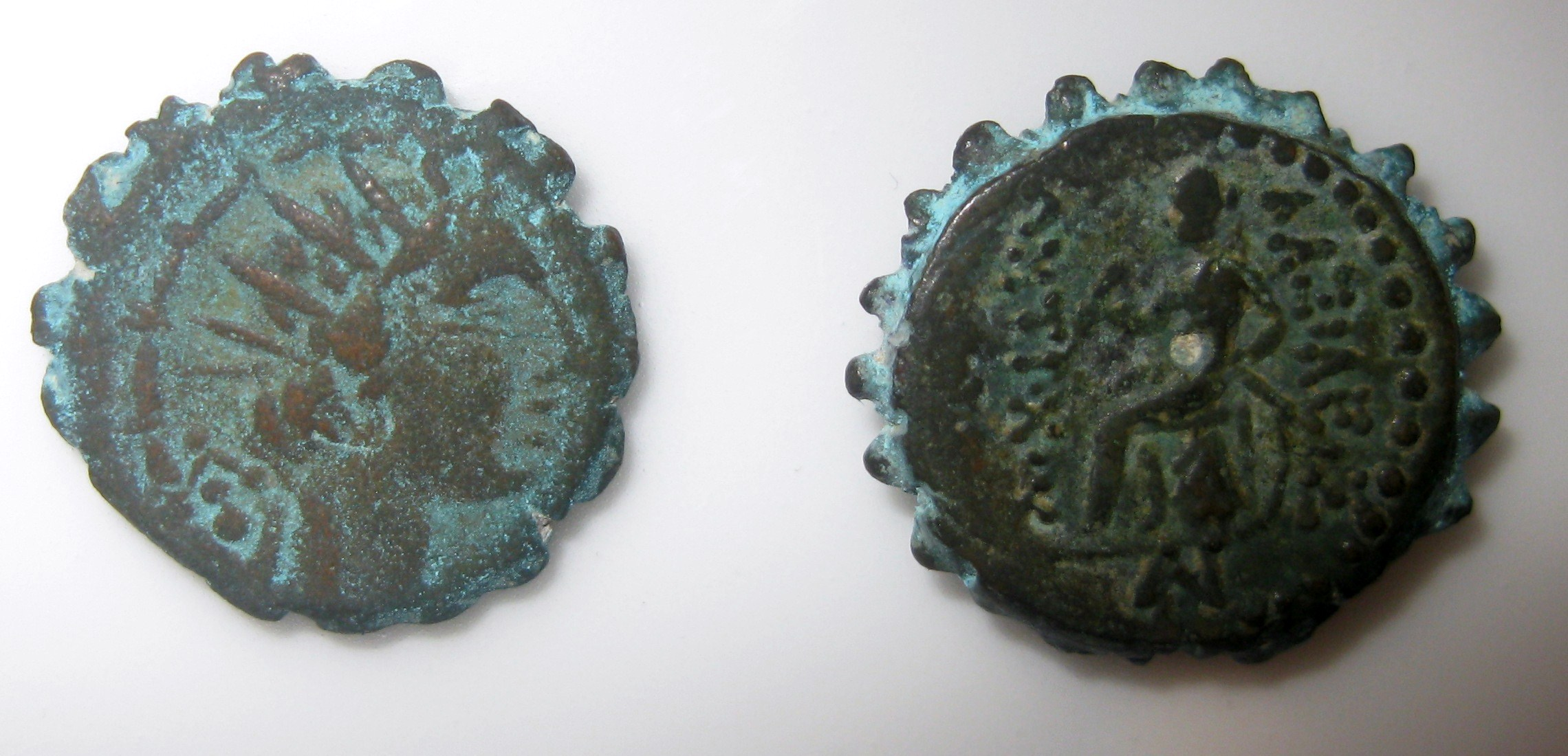 Coin of Antiochus IV Epiphanes. Itamar Atzmon's collection.